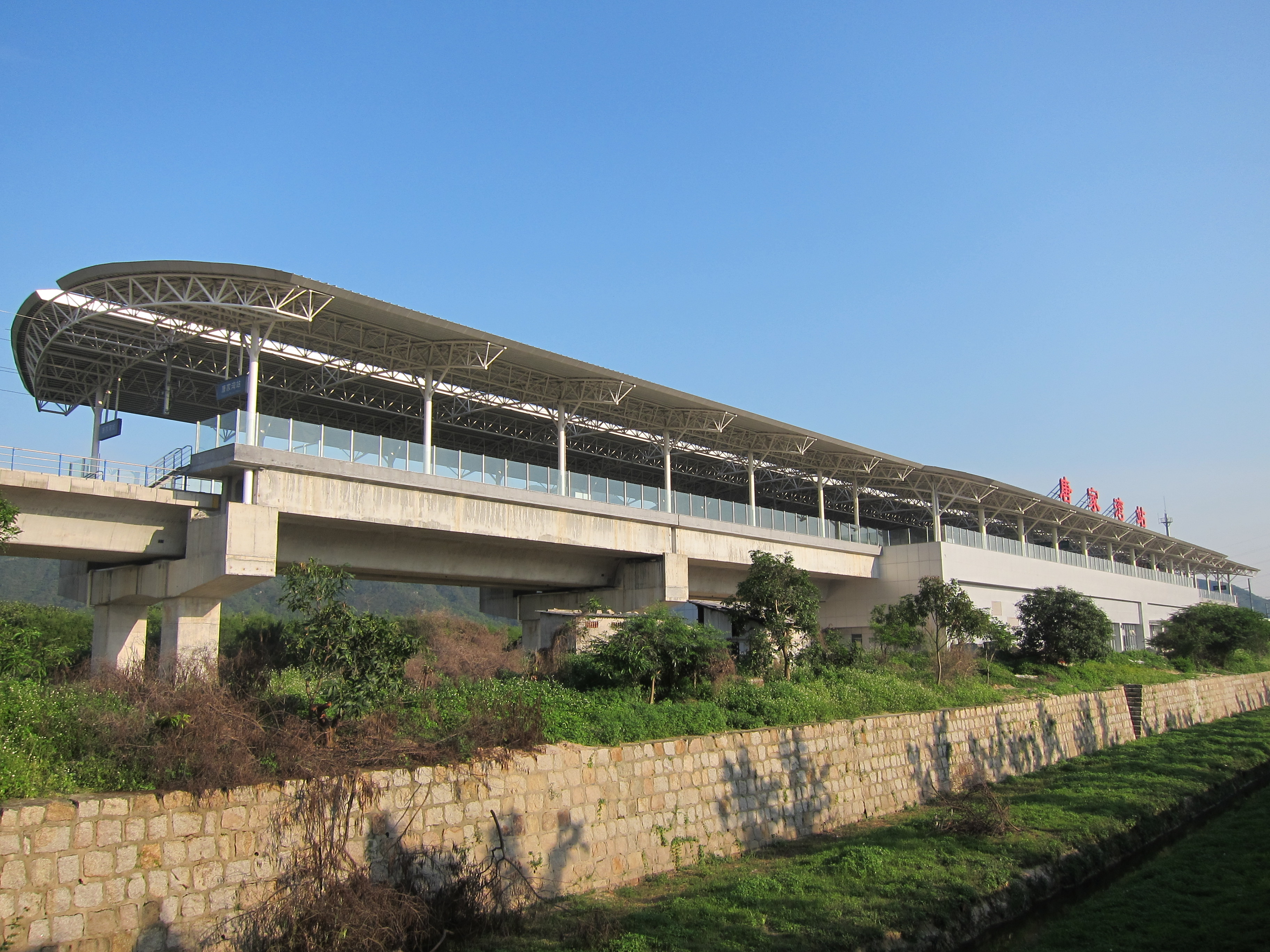 Exterior of Tangjiawan Station without trees.